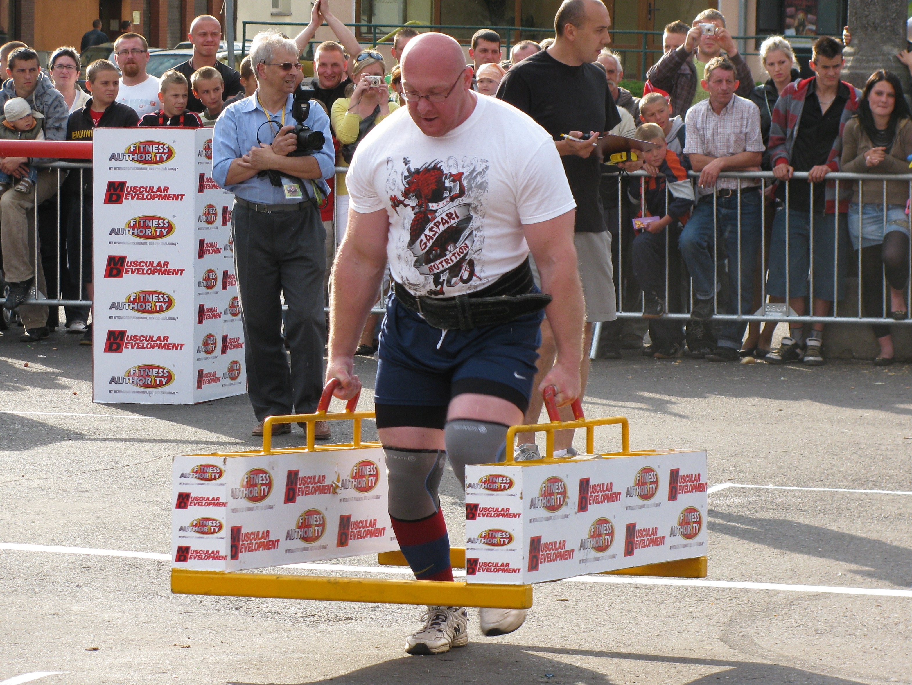 Strongman event: Frame Carry